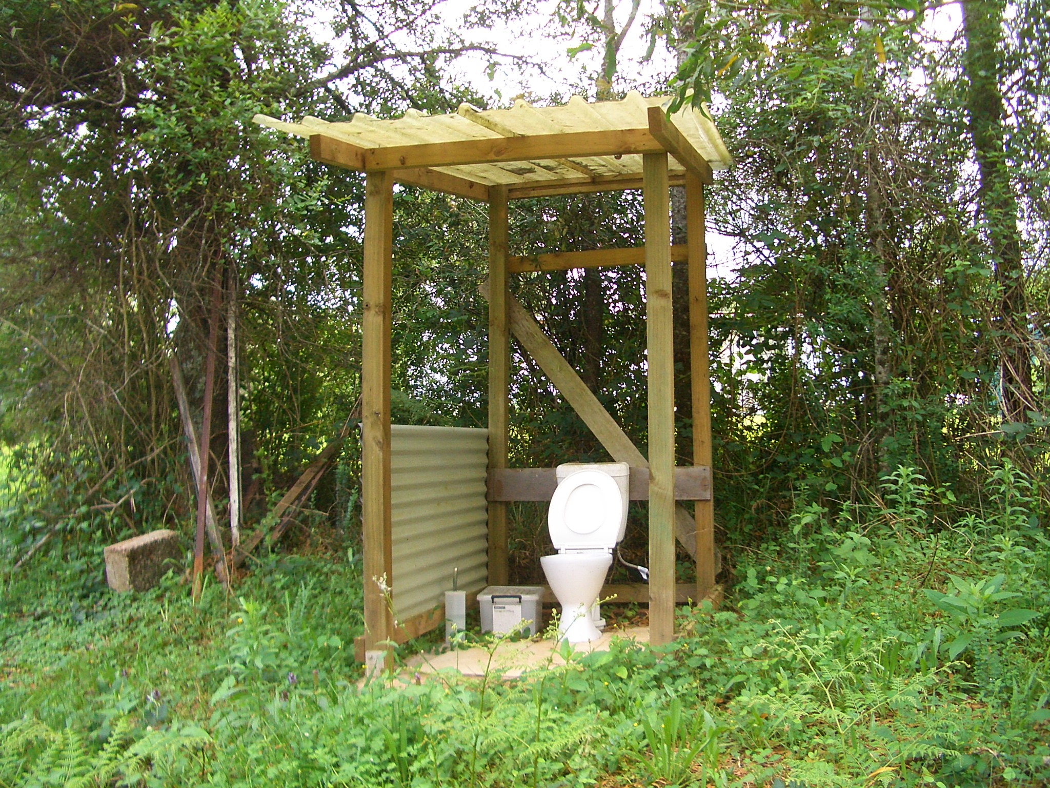 An open-air toilet outside a farm house in Wattamolla (near the town of Kangaroo Valley, in City of Shoalhaven, NSW, Australia)